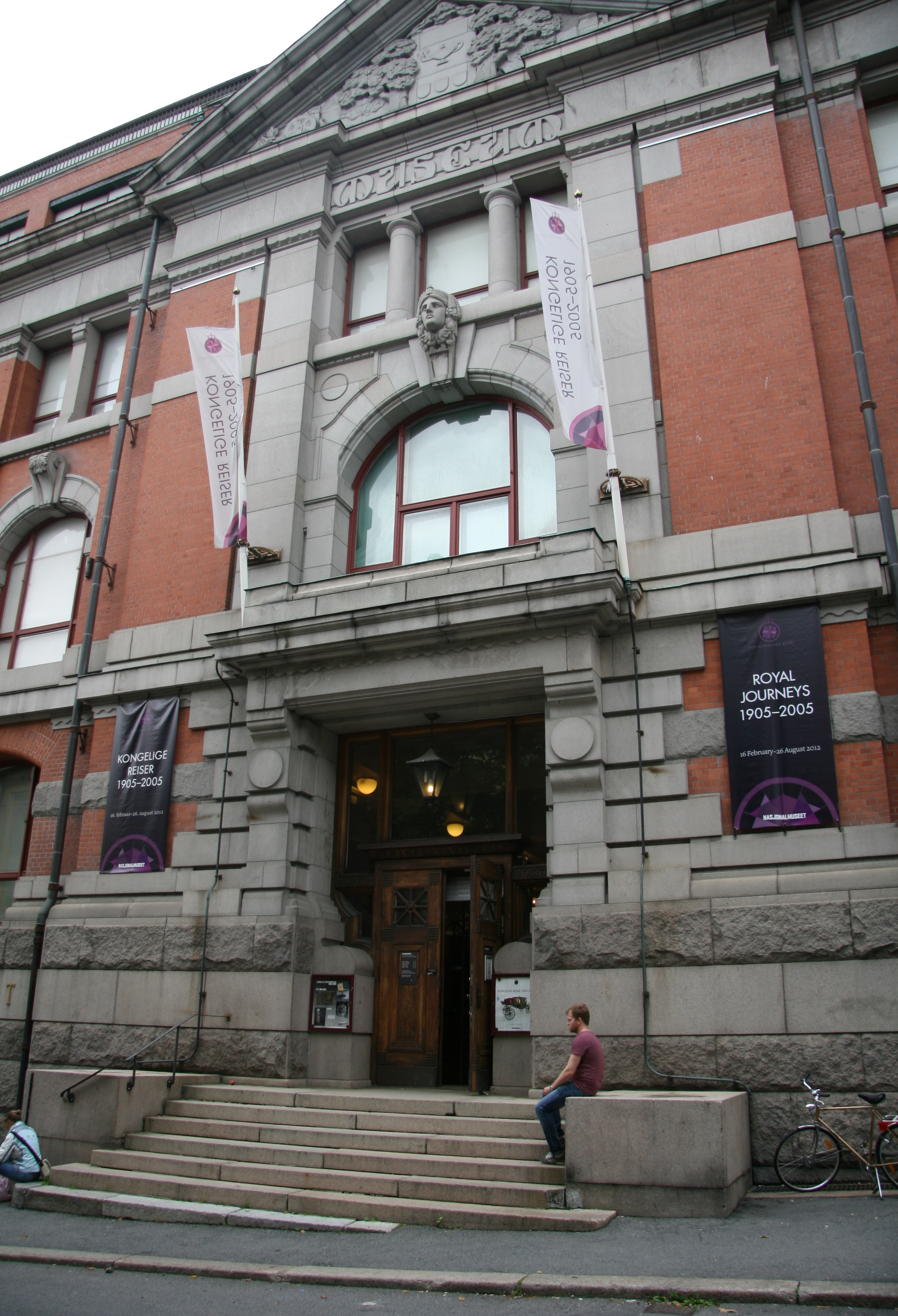 The Museum of Decorative Arts and Design, Oslo, Norway